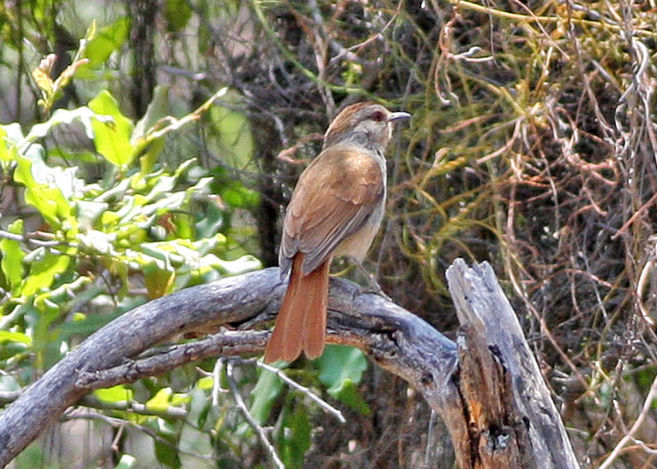 Rufous-tailed Palm Thrush (Cichladusa ruficauda), Hobatere to Kunene River